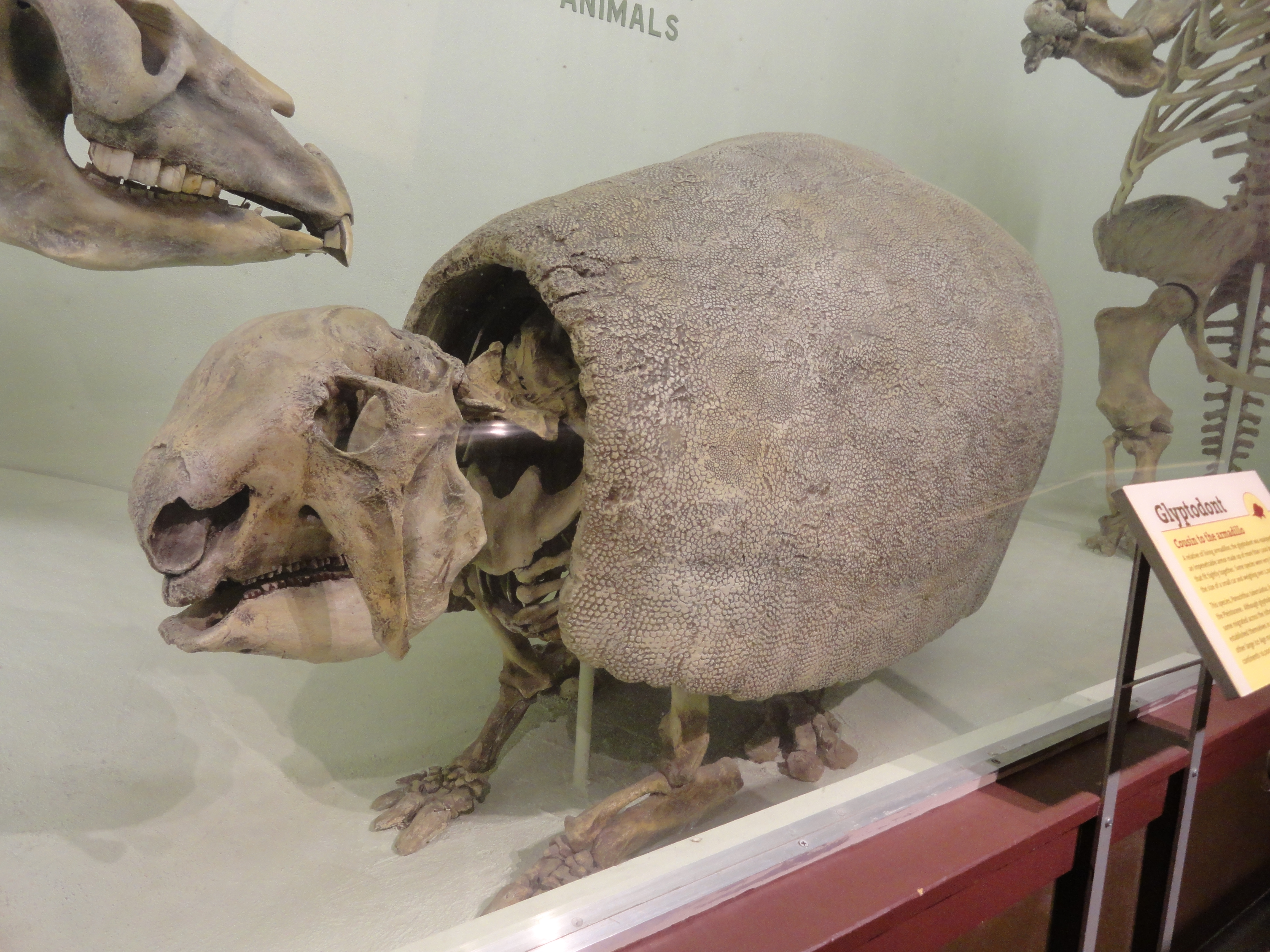 Glyptodon at Harvard Museum of Comparative Zoology